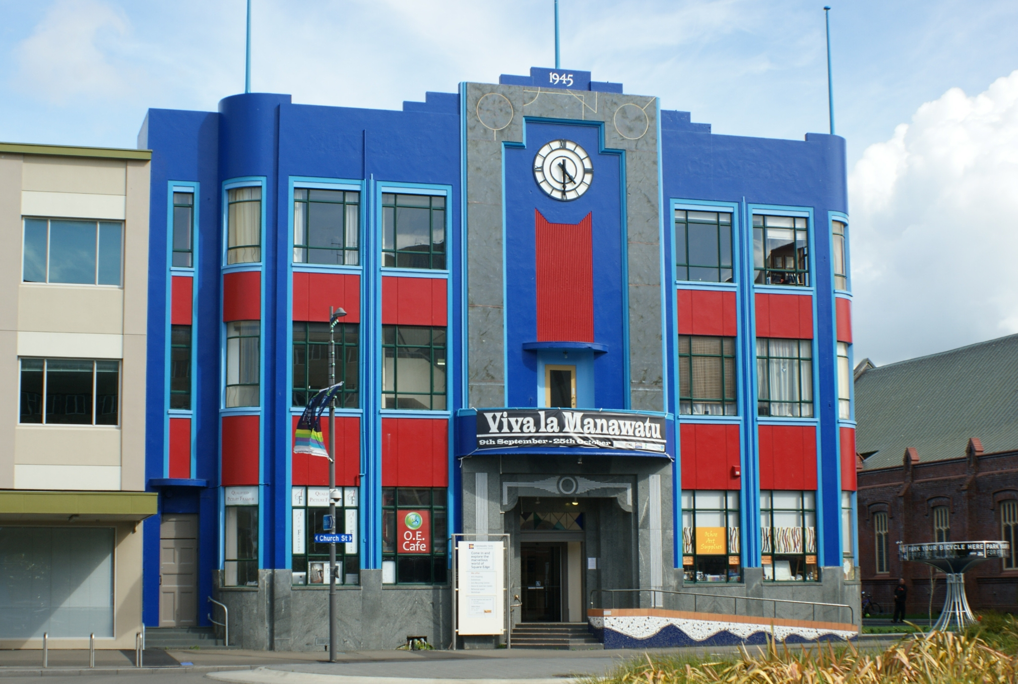 This bright building on the edge of the Palmerston North square is now known as "Square Edge". It used to be the PN Council Chambers (opened June 1945), and has retained much of its art deco style, with polished wooden floors and ornate ceilings. Square Edge Creative Centre has been the focus of artistic talent in PN for several decades. It's home to a number of artist studios, shops, an art gallery and performance/rehearsal spaces.